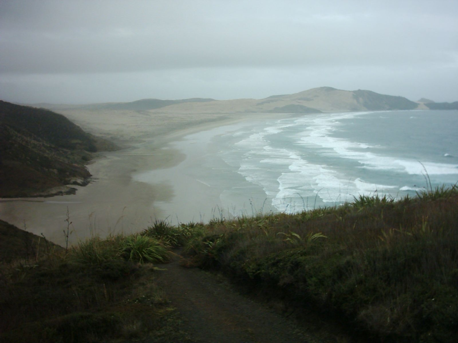 View over the wide beach (Te Werahi Beach) west of Cape Reinga in New Zealand. Cape Maria Van Diemen is just off to the right in the distance.